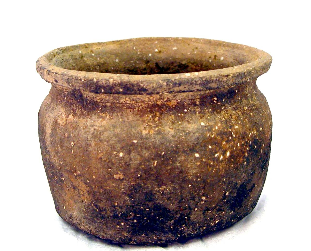 Late Saxon Shelly ware cooking pot . Buff fabric. Shell inclusions. Inverted rim.